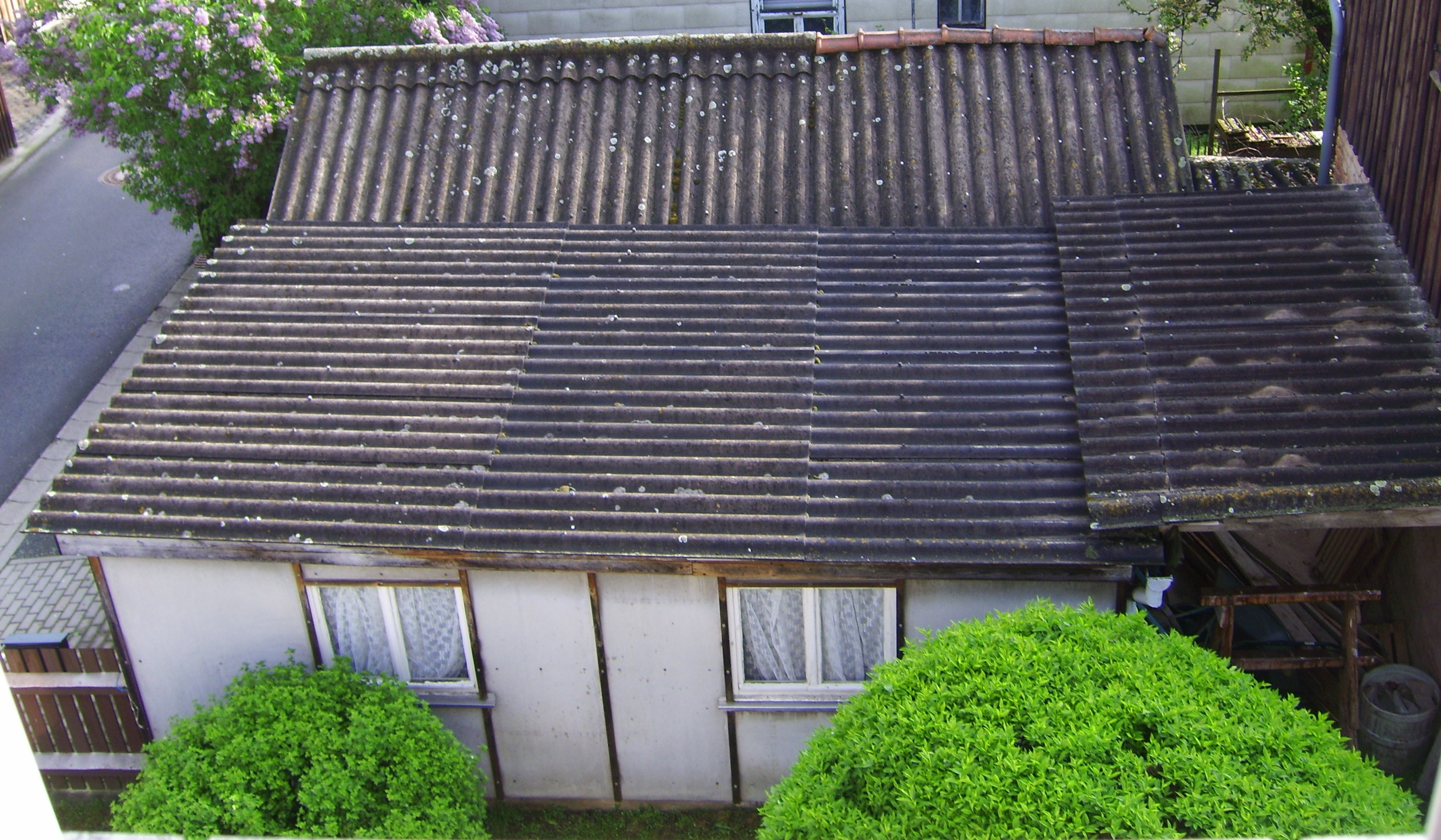 Garage build using asbestos material